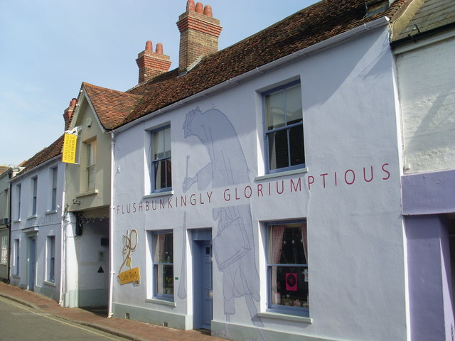 The Roald Dahl Museum and Story Centre Located at 81-83 High Street, Great Missenden, HP16 0AL, this museum was opened in June 2005, and was created as a home for the author's unique archive. The wording on the front says: IT IS TRULY SWIZZFIGGLINGLY FLUSHBUNKINGLY GLORIUMPTIOUS. There is also a Café Twit at this museum.